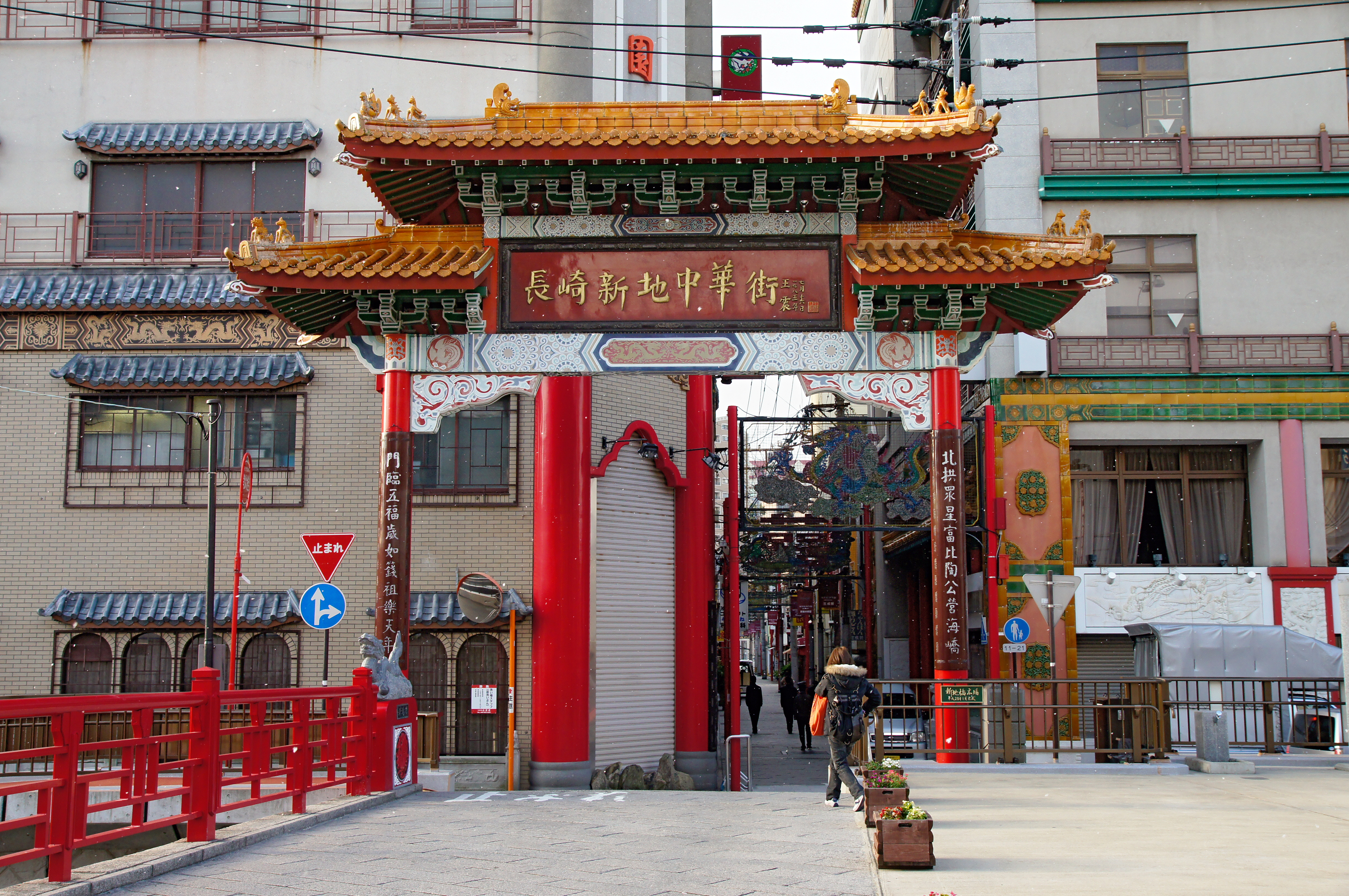 At Nagasaki Chinatown in Nagasaki City, Nagasaki prefecture, Japan